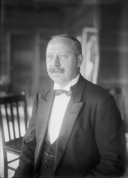 Oleksander Koshetz (1875 – 1944), Ukrainian conductor and composer